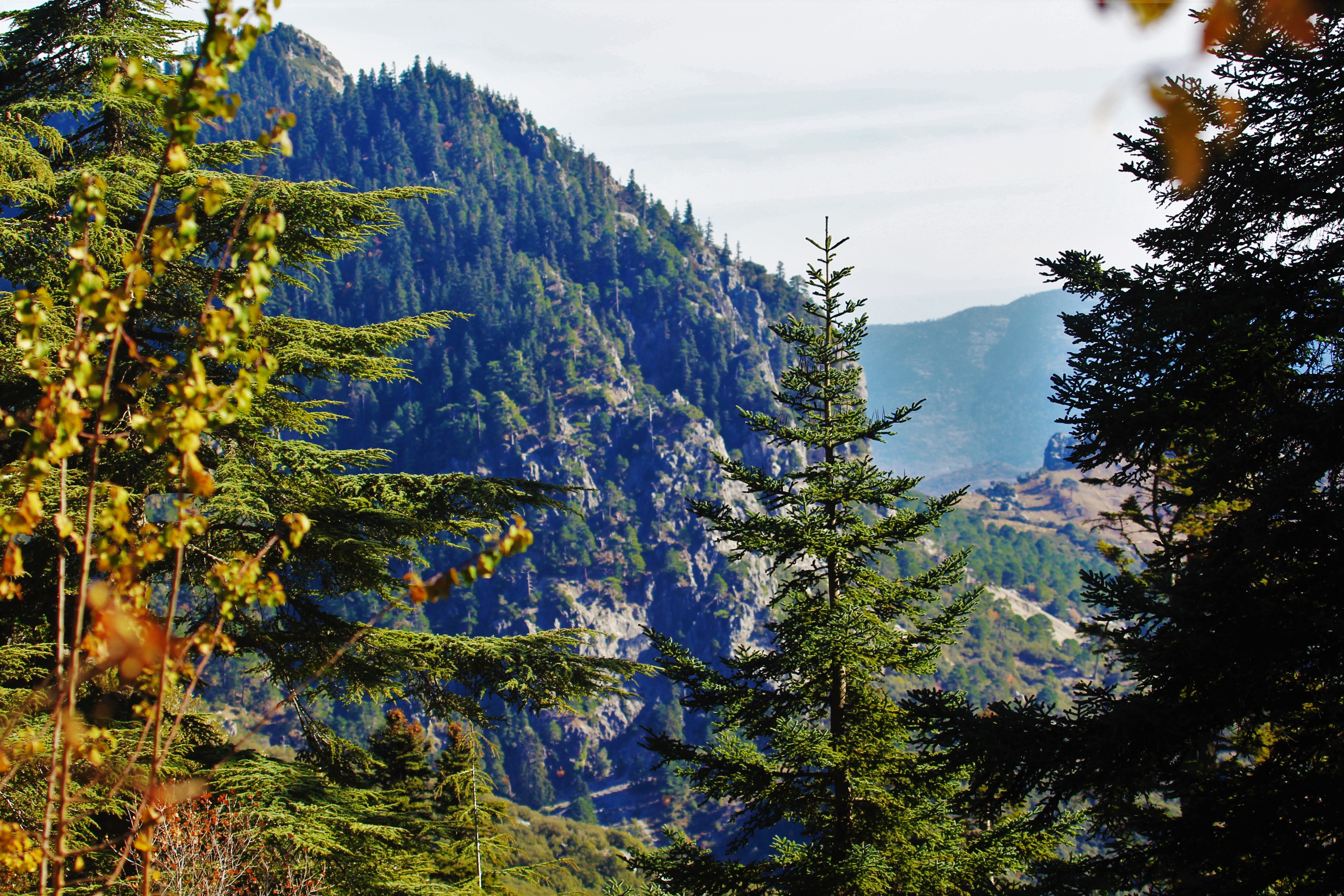 parc de Talassemtane